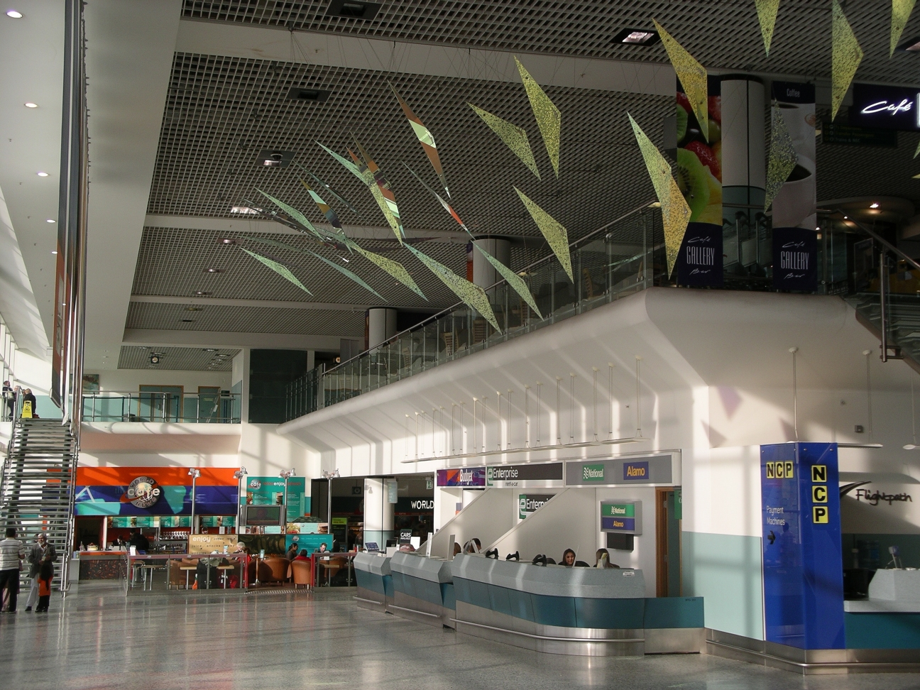 Birmingham international airport (UK) - arrivals lounge